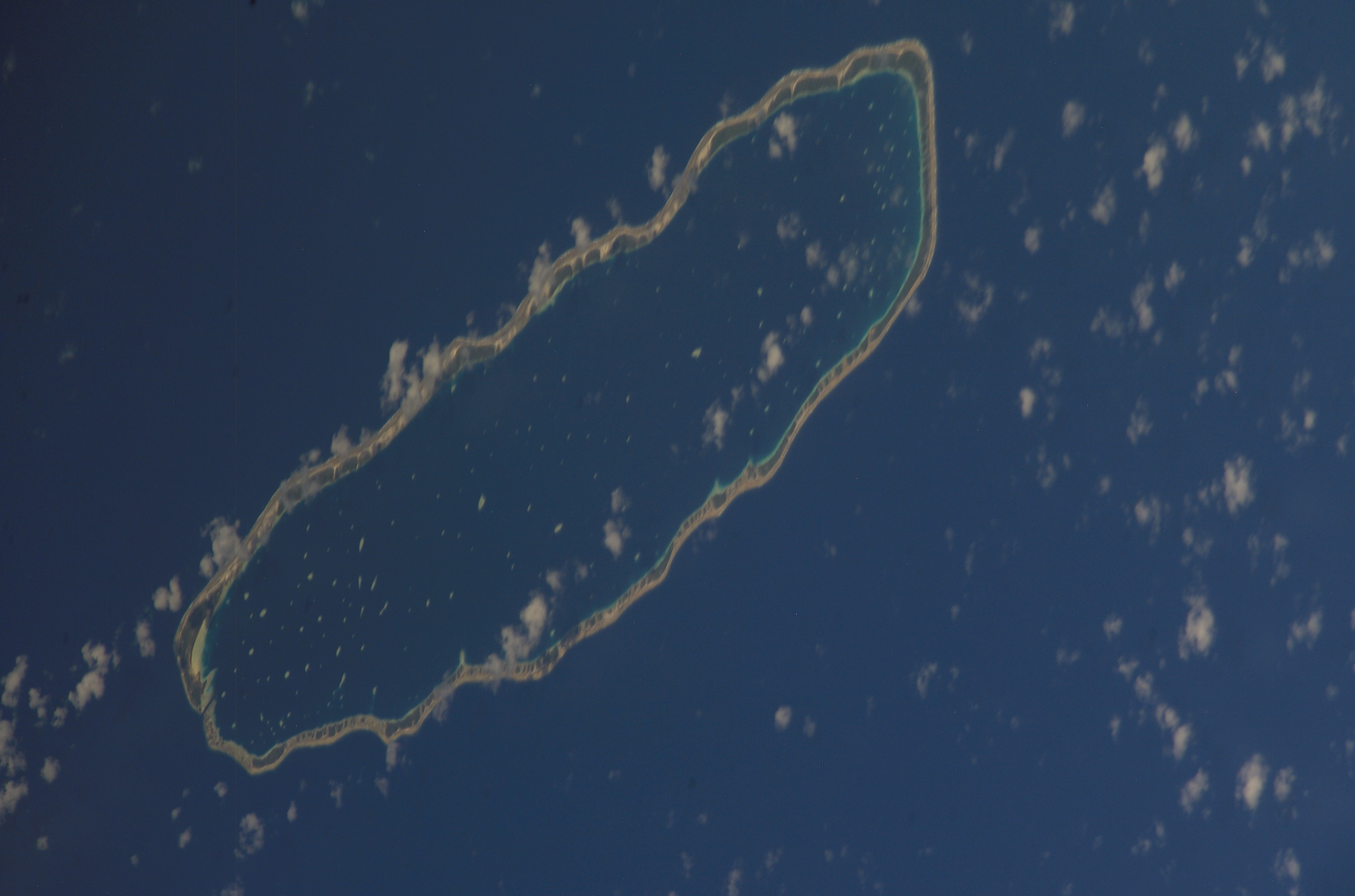 An image from the International Space Station of the Manihi Atoll in the Tuamotu Archipelago, French Polynesia.